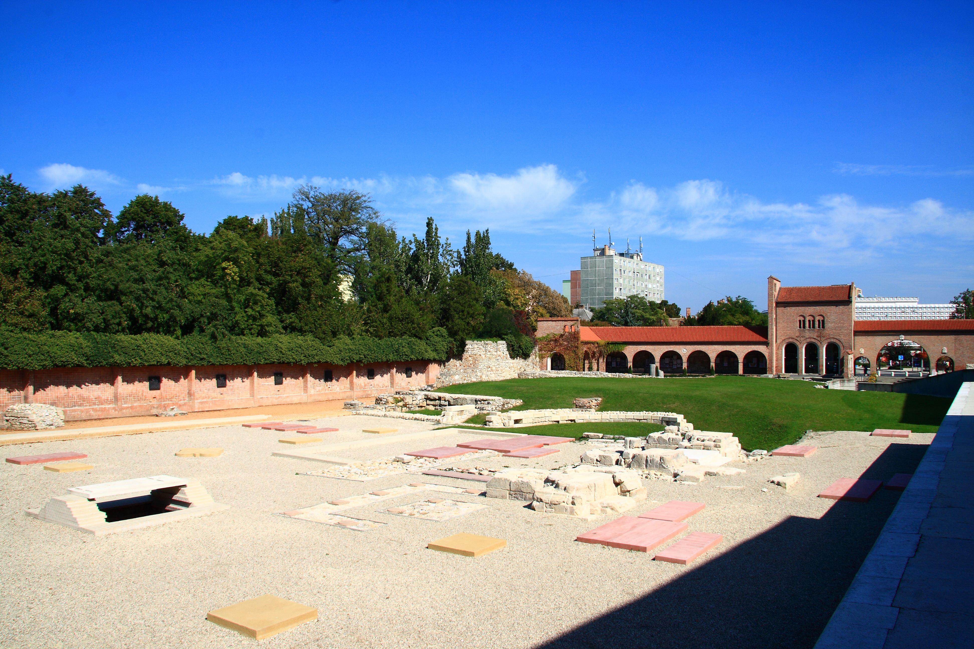 Ruins' Garden in Székesfehérvár